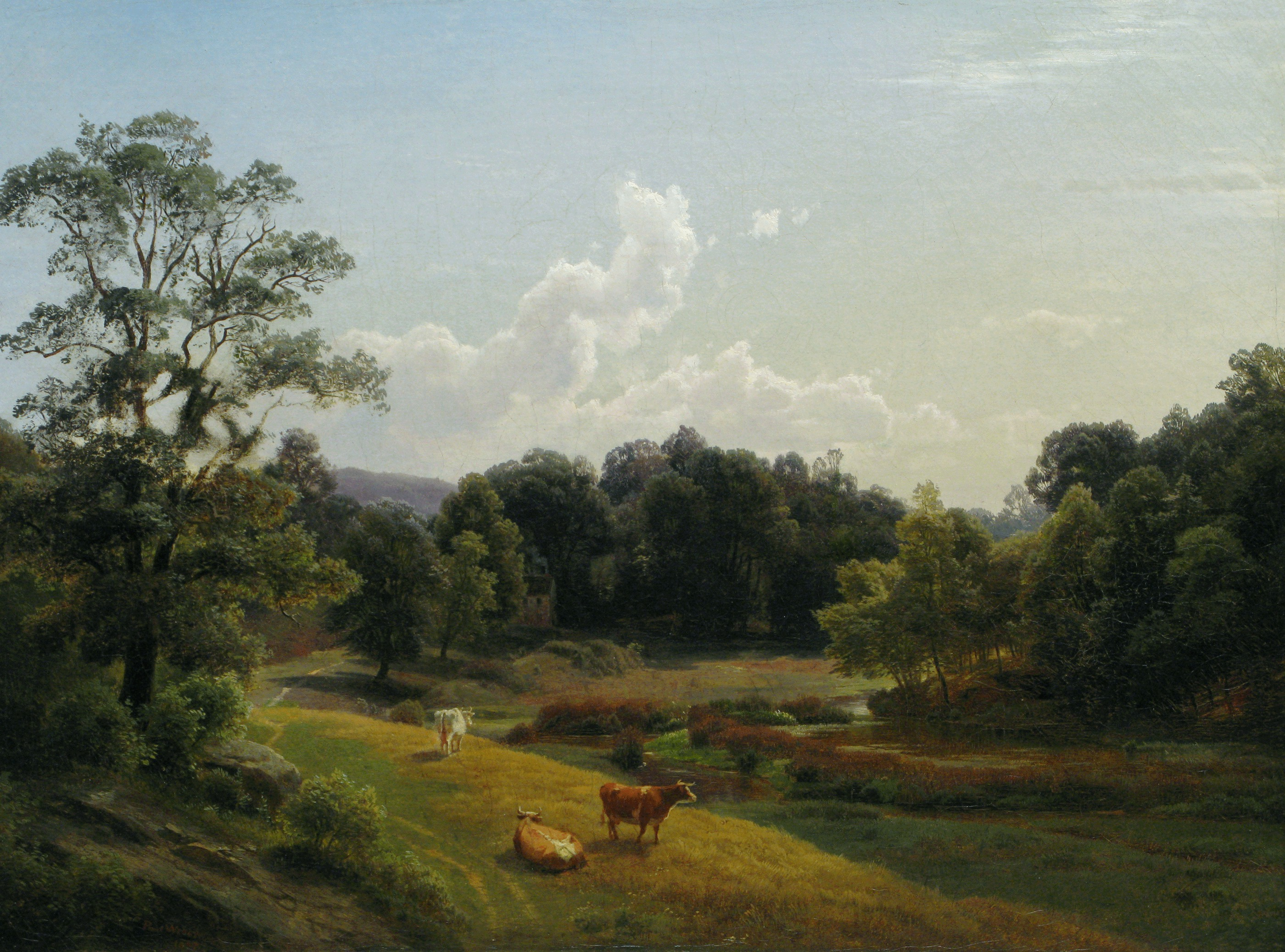 Pastoral Landscape in Summer by Paul Weber, oil on canvas, 18¼ x 24¼ inches, 1857